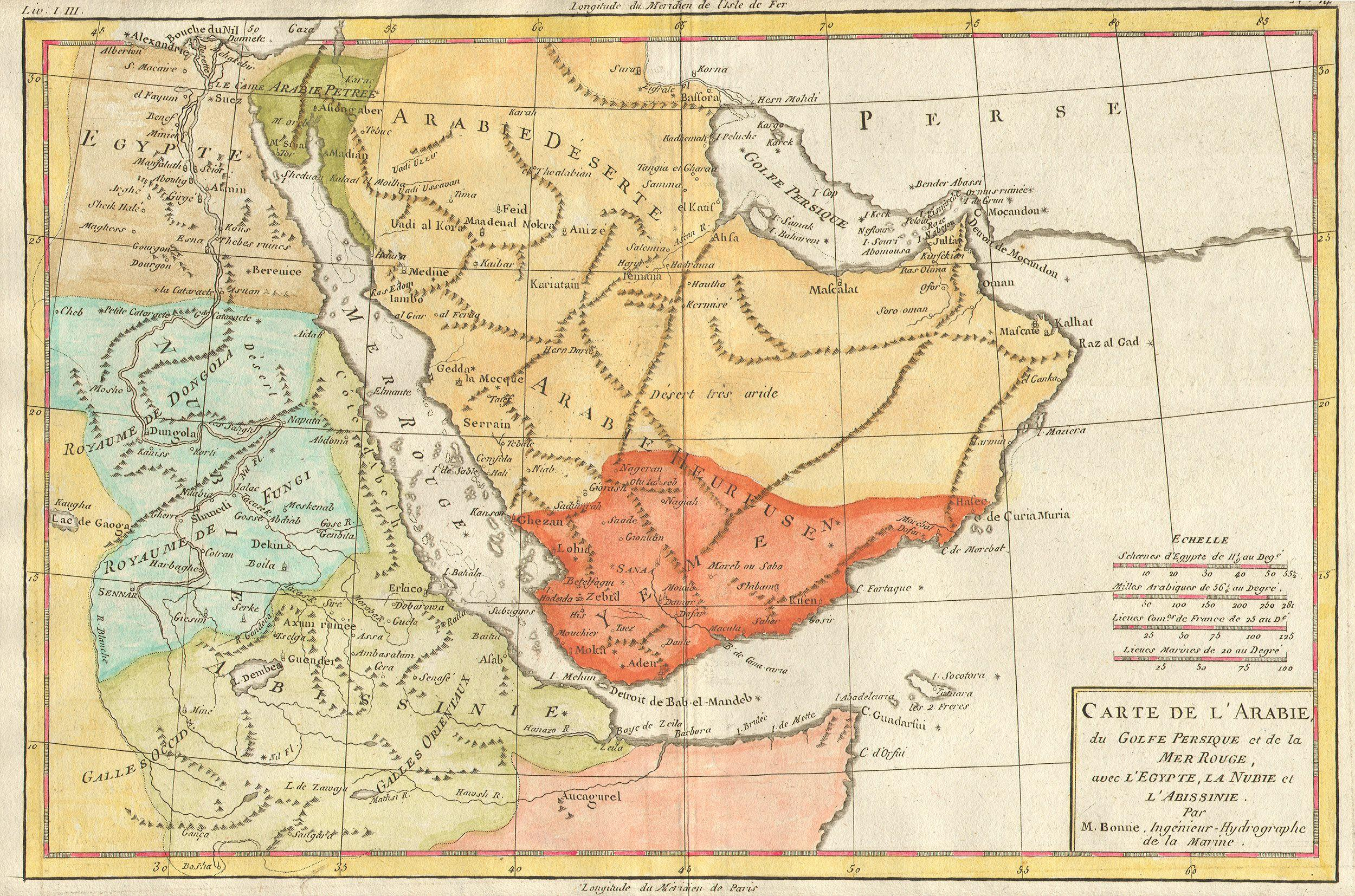 This is an attractive map of Arabia, northwestern Africa, Ethiopia (Absynnia) and the Red Sea by the mapmaker Rigobert Bonne, c. 1780. Towns, churches, cities and mountains are depicted as miniature representations of themselves. This map is highly detailed and beautifully crafted.